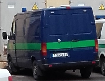 Van used by Public Security Service of Lithuania